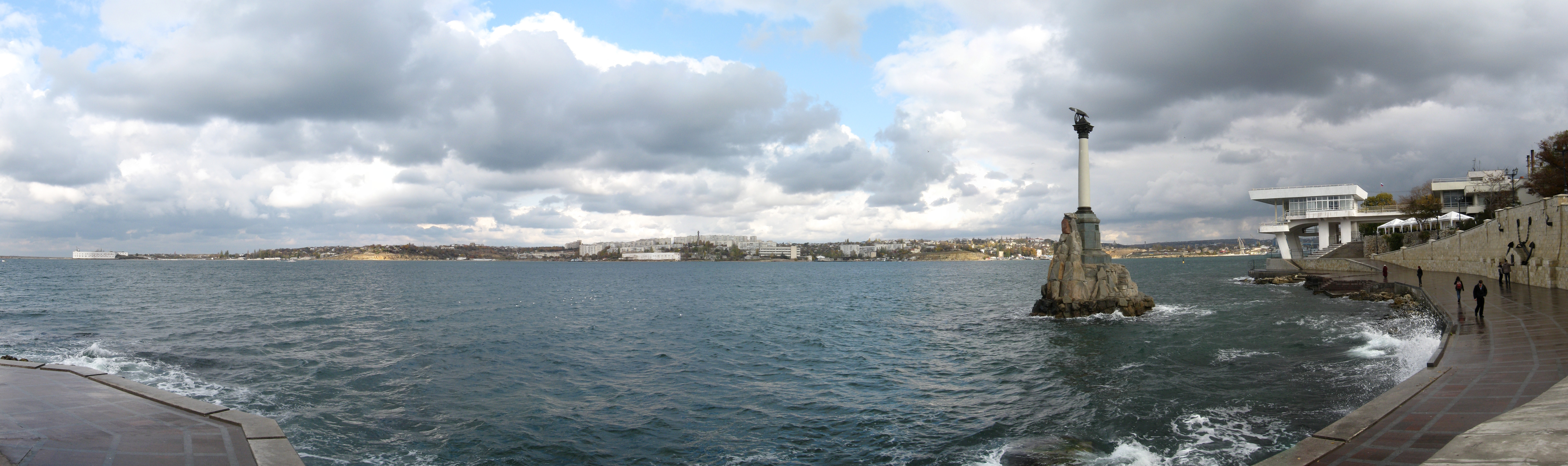 Monument to sunken ships, Sevastopol